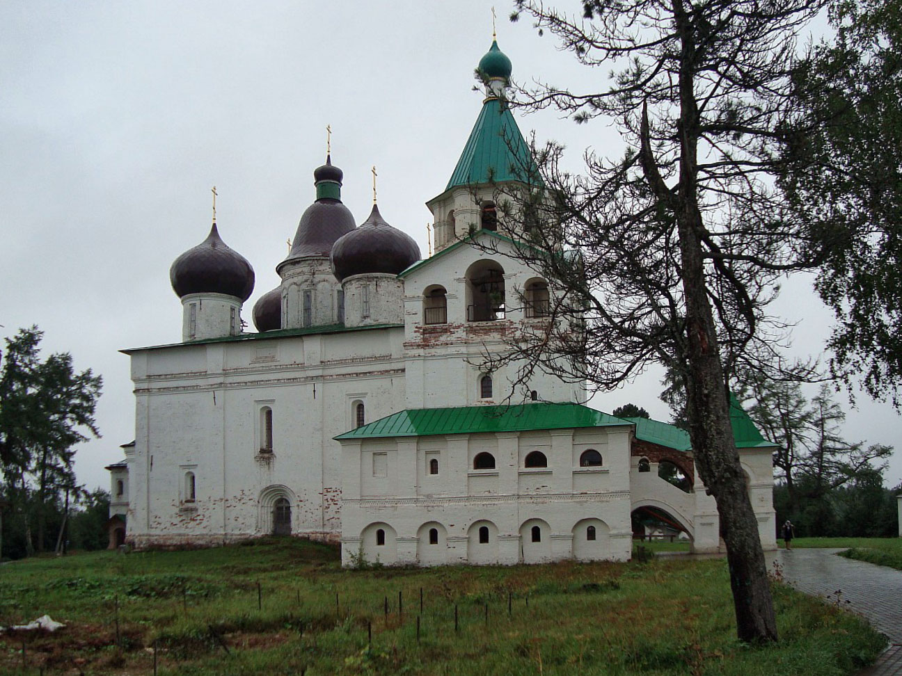 Antonievo-Siysky Monastery